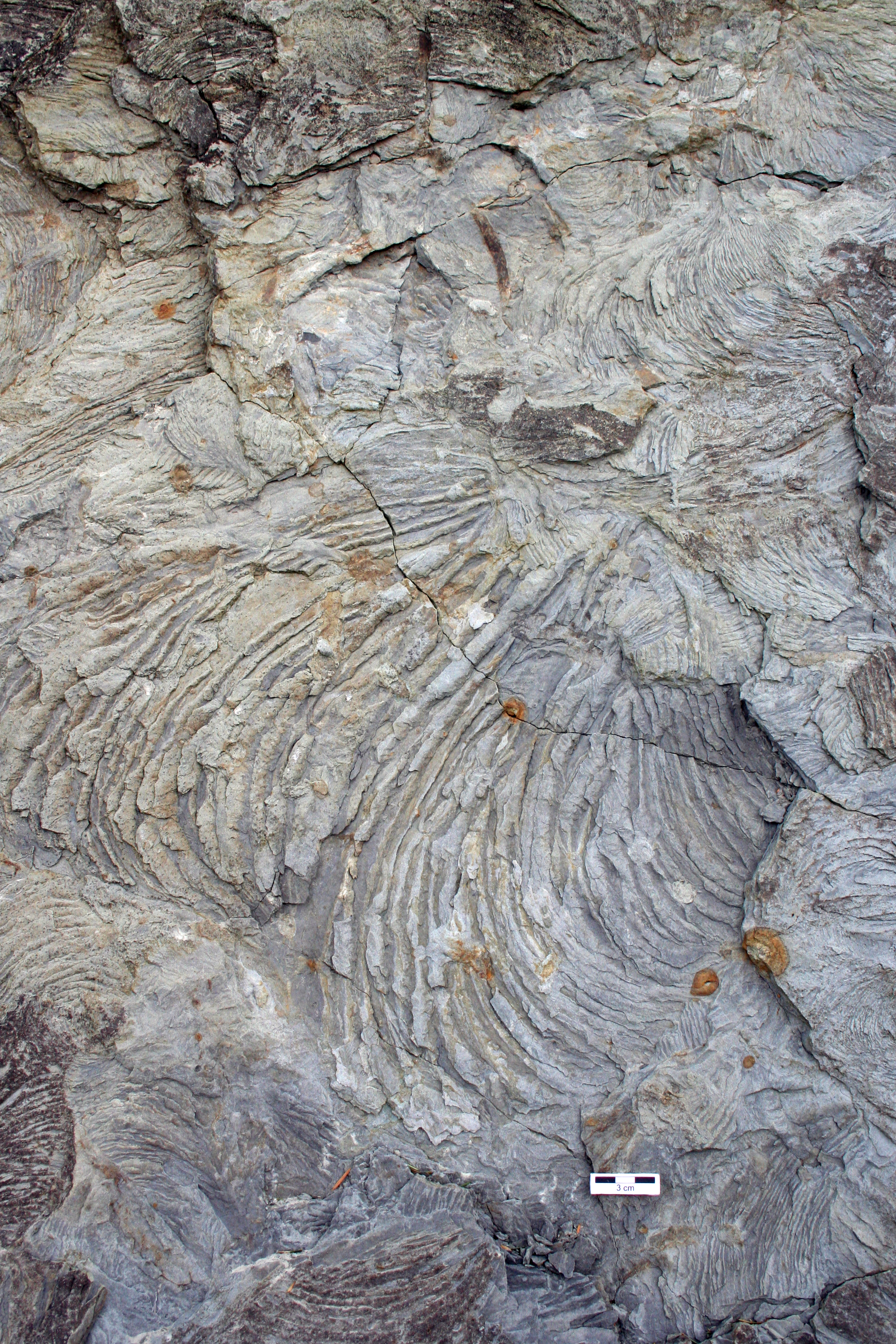 Bedding plane exposure of multiple Zoophycos in the Carlisle Center Formation (Early Devonian), near Cherry Valley, New York.